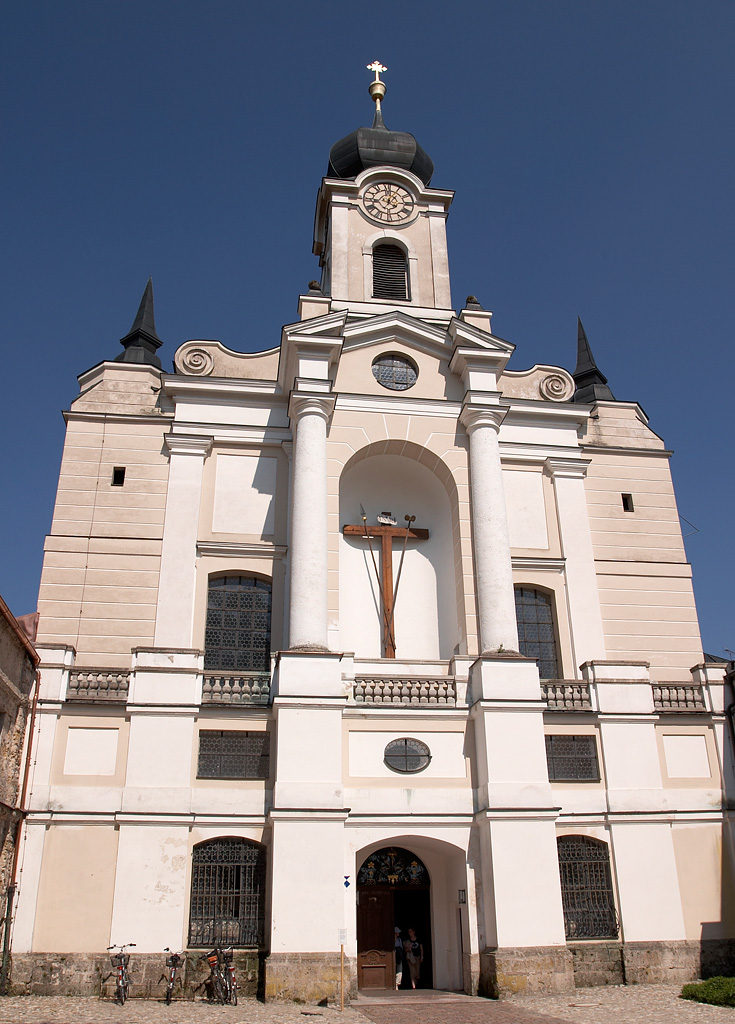 Raitenhaslach: Monastery church